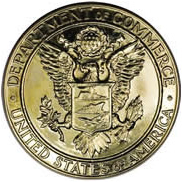 US Dept of Commerce Silver Medal